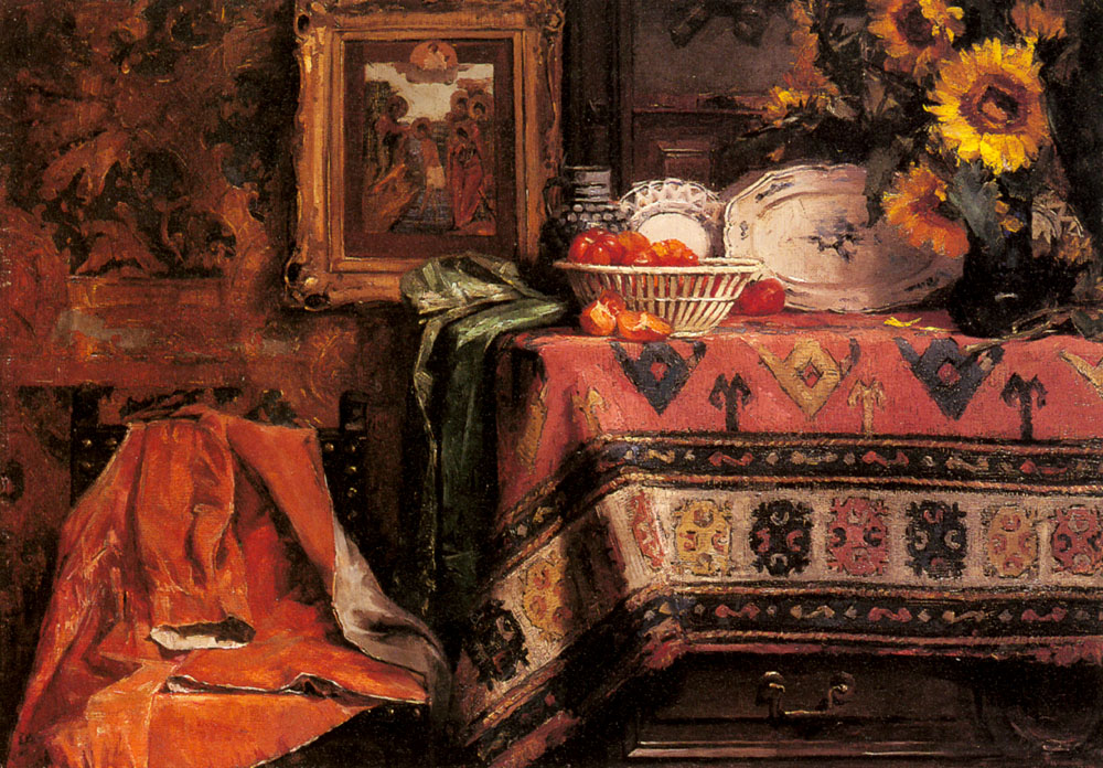 Private collection